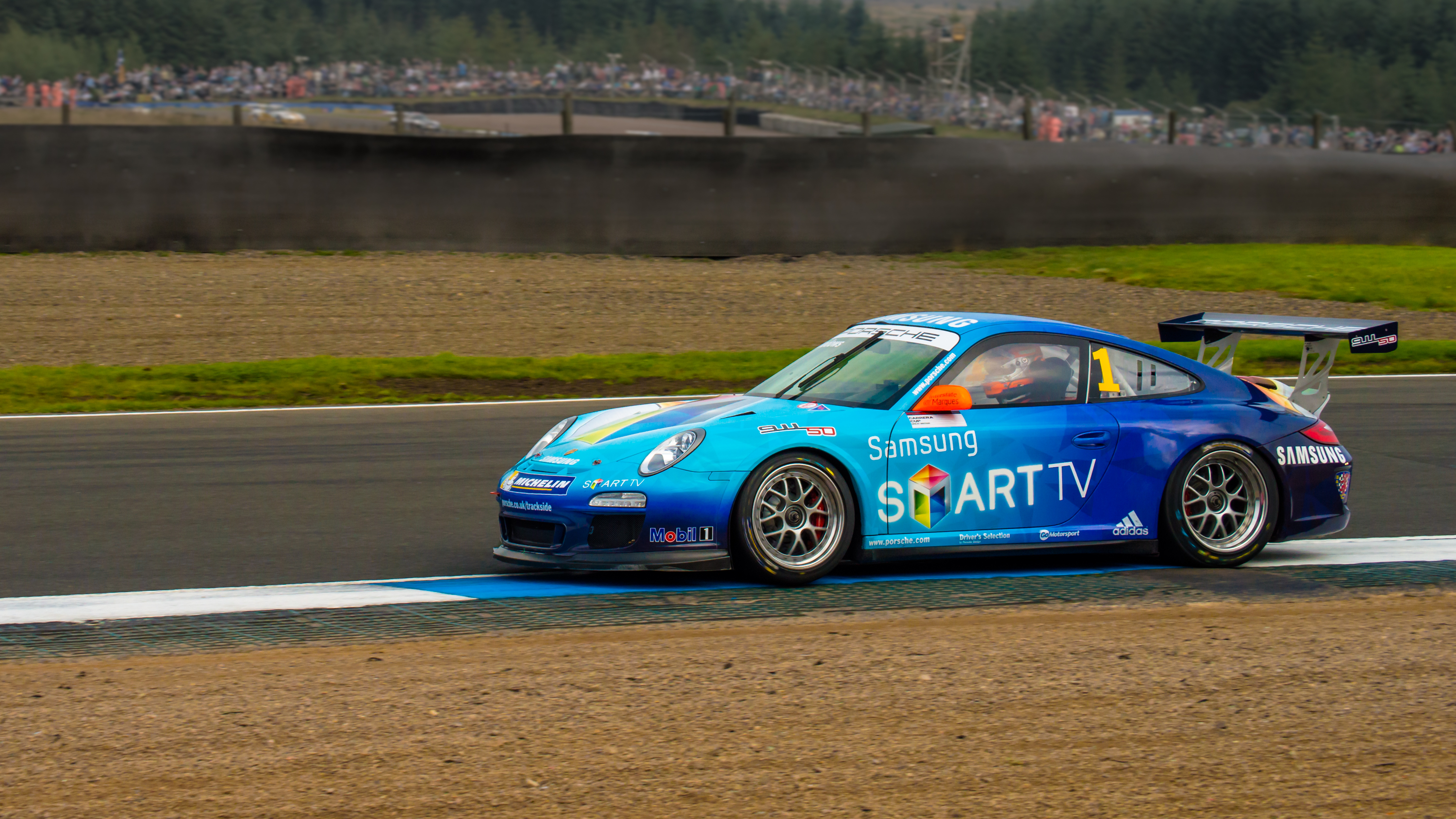 55-200mm kit lens, non VR, sports mode on the d3200.